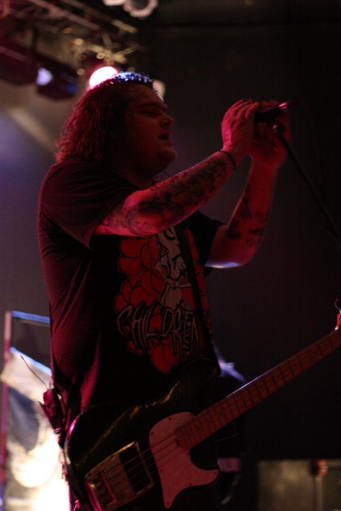 Gwen Stacy performing at the Murray Hill Theater on June 15 2010.